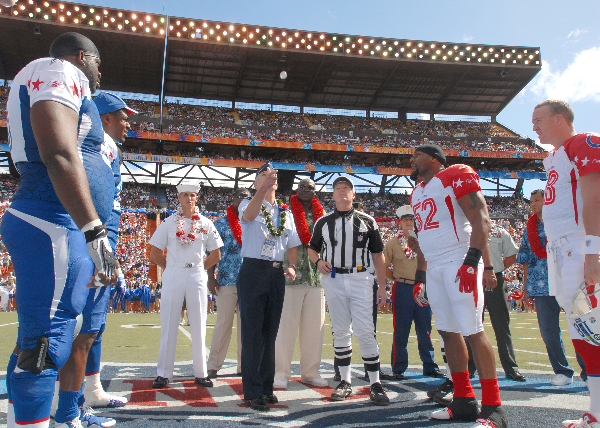 U.S. Air Force Lt. Gen. Douglas M. Fraser, deputy commander, U.S. Pacific Command, performs the ceremonial coin toss before the National Football League's 2009 Pro Bowl game at Aloha Stadium, Hawaii, Feb. 8, 2009. The annual event, which features all-star players from the National Football Conference and American Football Conference, has been held at Aloha Stadium for 30 years. VIRIN: 090208-N-5476H-031